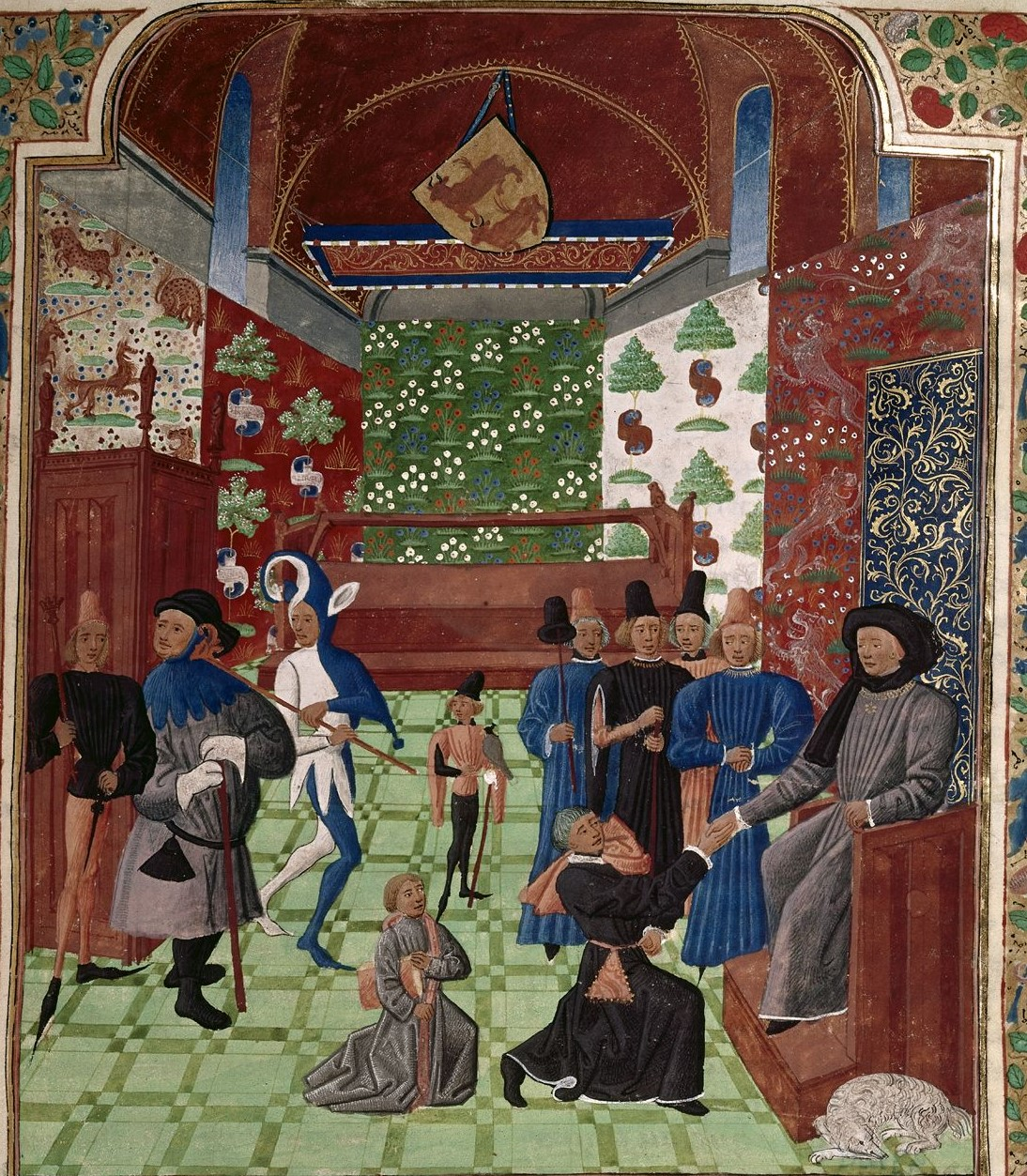 Jean Froissart kneeling before Gaston III Febus, count of Foix. (British Library, Royal 14 D V f. 8)